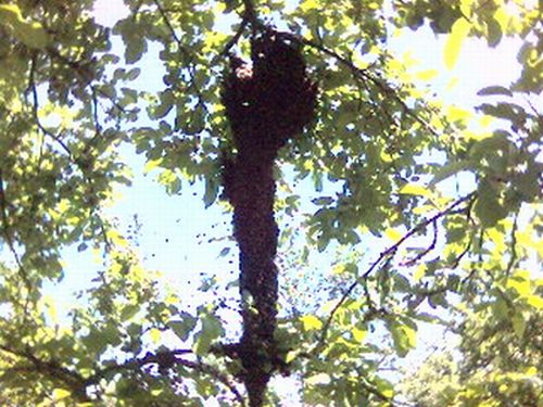 Bees swarm in wild